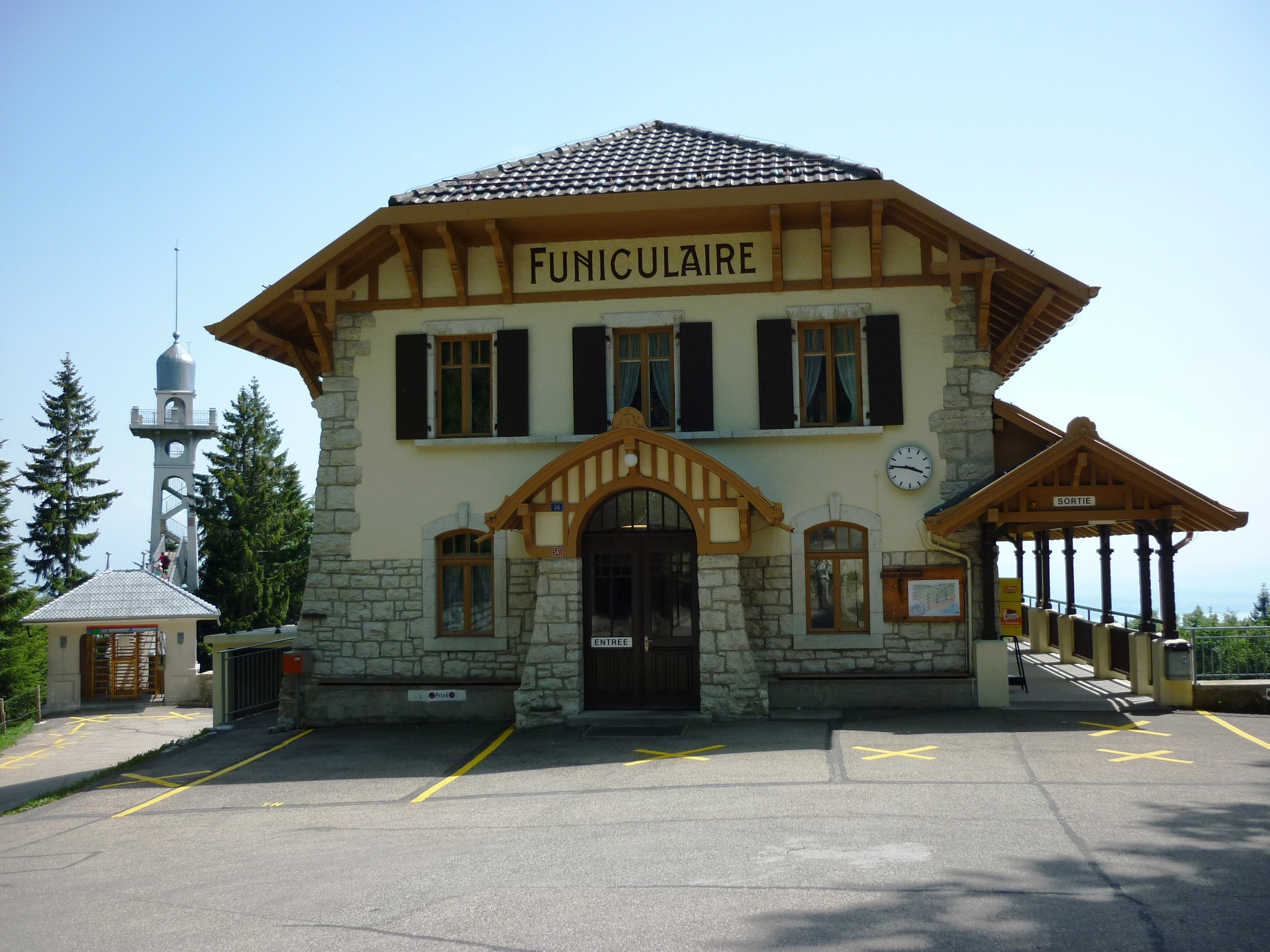 Seilbahn Chaumont, Neuenburg, Schweiz